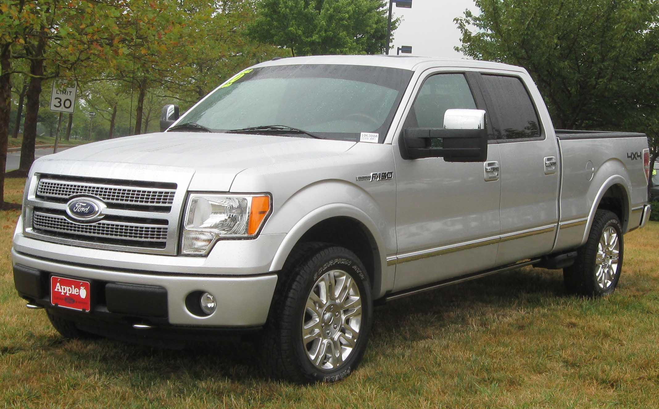 2010 Ford F-150 photographed in Columbia, Maryland, USA.